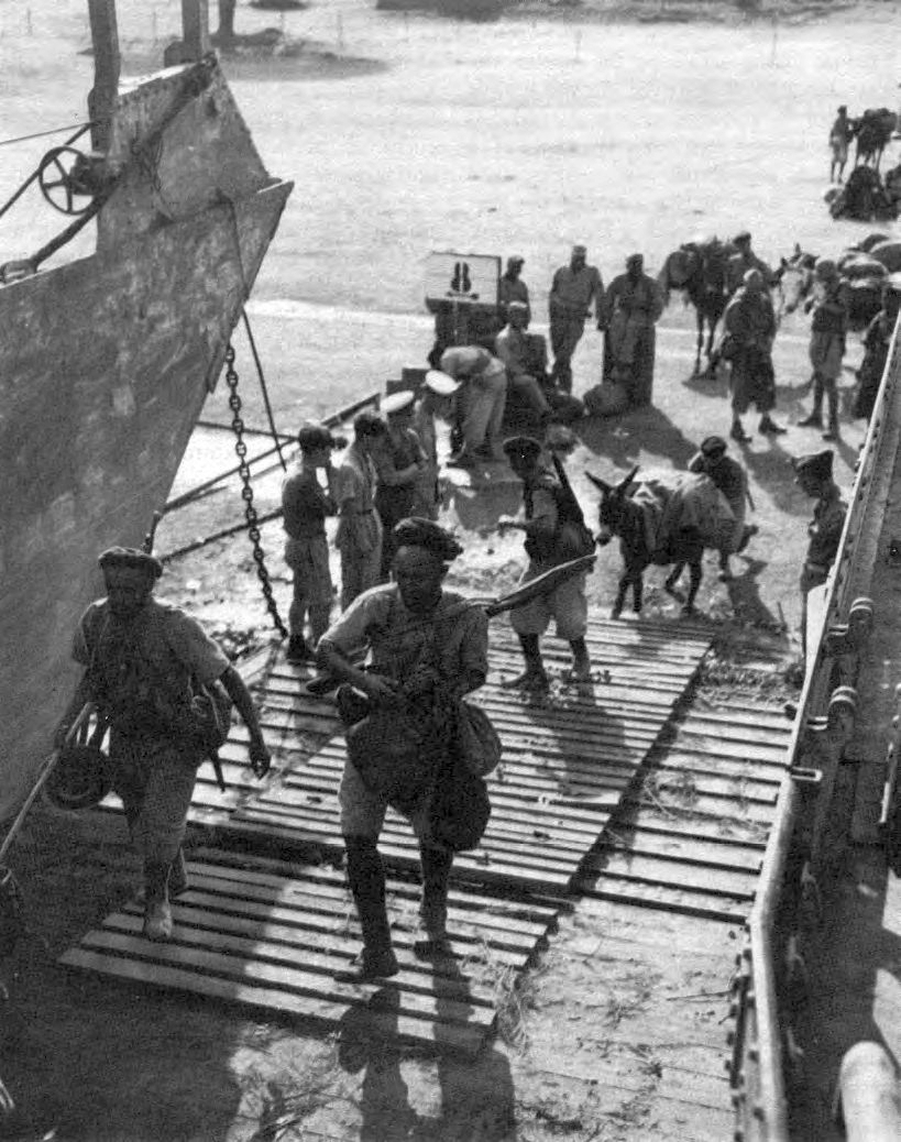 Goumiers of the 2nd group of Moroccan tabors (2d GTM) boarding landing craft at Corsica for the invasion of Elba. (2d GTM reinforced the 9th colonial infantry division for the Elba operation)